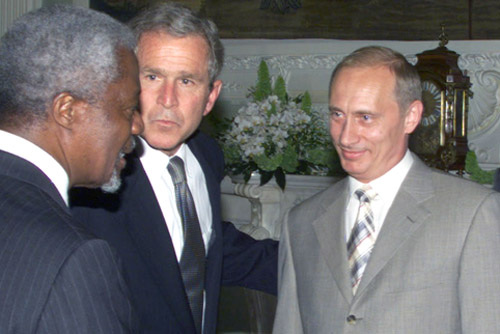 GENOA. President Putin with UN Secretary-General Kofi Annan and US President George W. Bush.